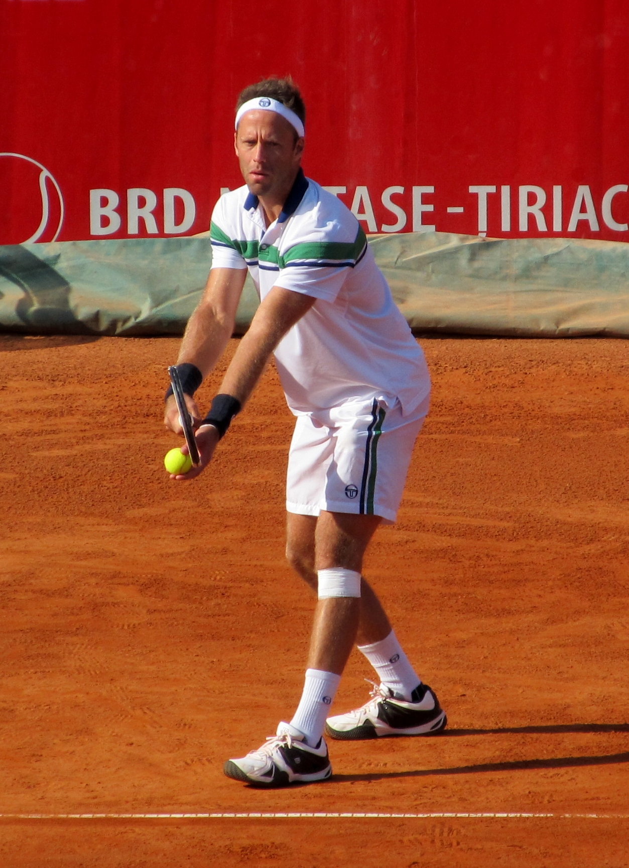 Robert Lindstedt serving at the 2012 BRD Năstase Țiriac Trophy